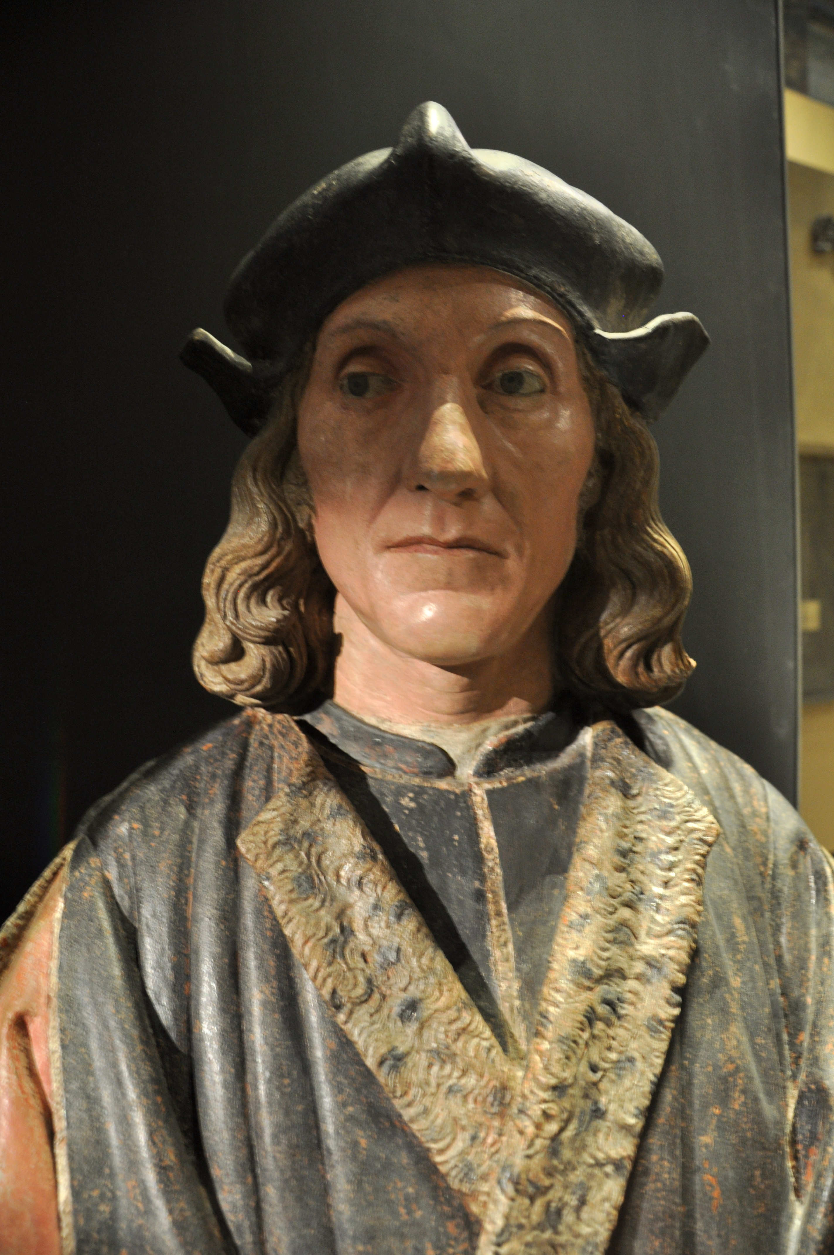 Bust of Henry VII of England from 1509-1511. This Bust is based on a plaster cast taken from the dead kings face. It was made of terracotta by the florentine sculptor Pietro Torrigiani. Victoria and Albert Museum.